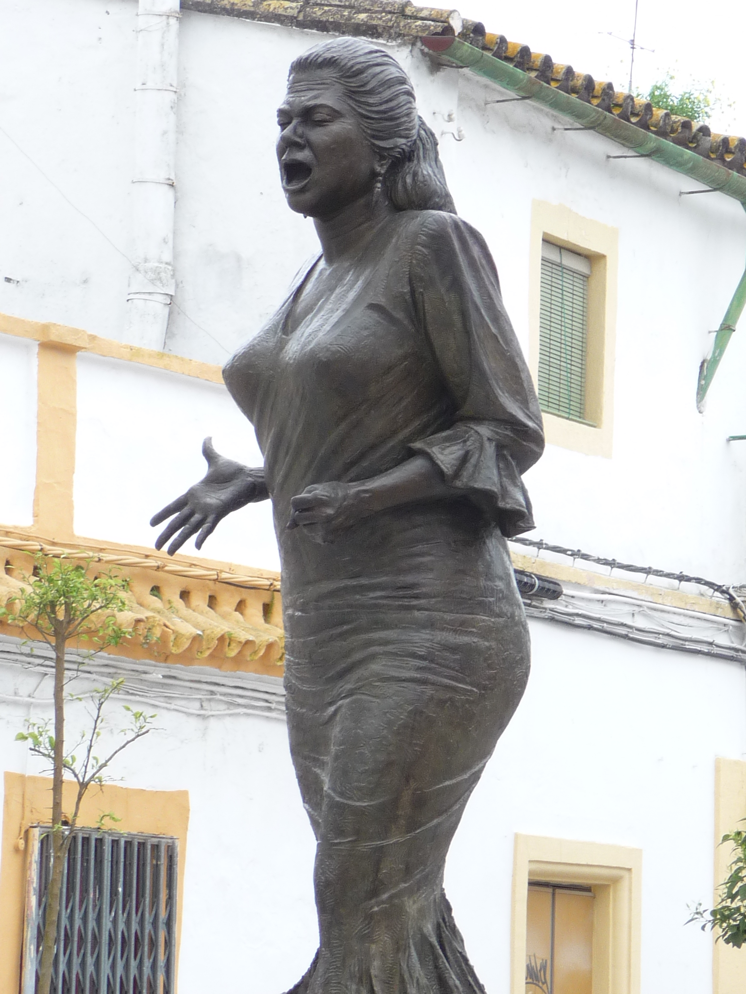 Monument to La Paquera de Jerez (flamenco singer)